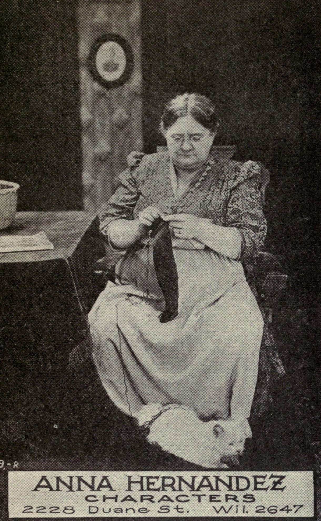 American actress Anna Dodge in 1921.